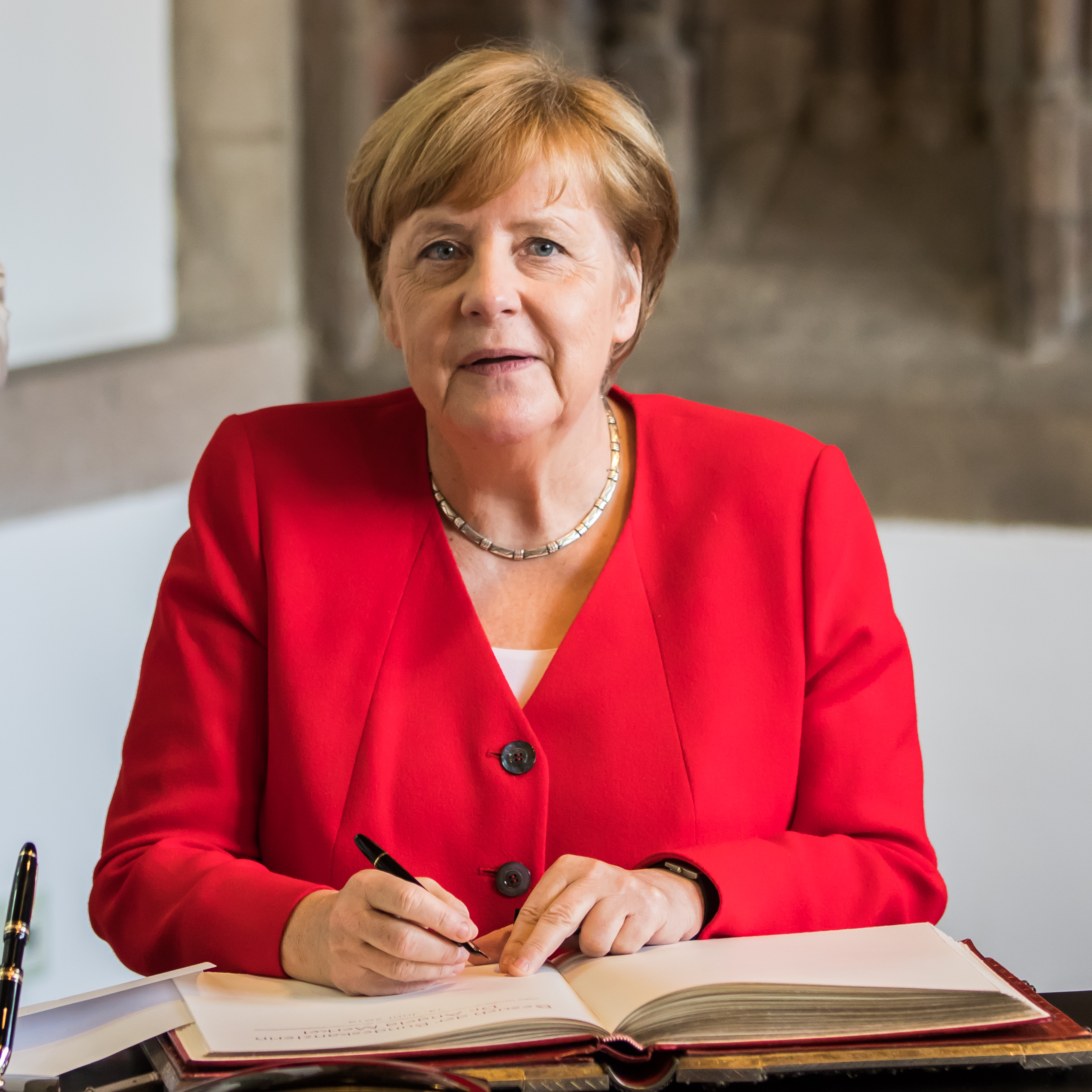 Chancellor Angela Merkel signs the Golden Book of Cologne during her visit to the City Hall.